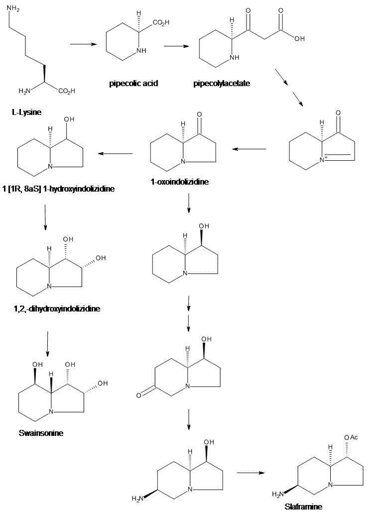 Biosynthesis of Swainsonine beginning with L-Lysine